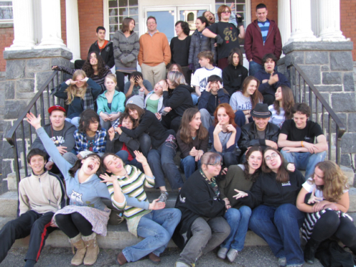 North Star teens and staff gathered on the steps of their former location, the historic Russell Street School in Hadley, MA (November, 2010)